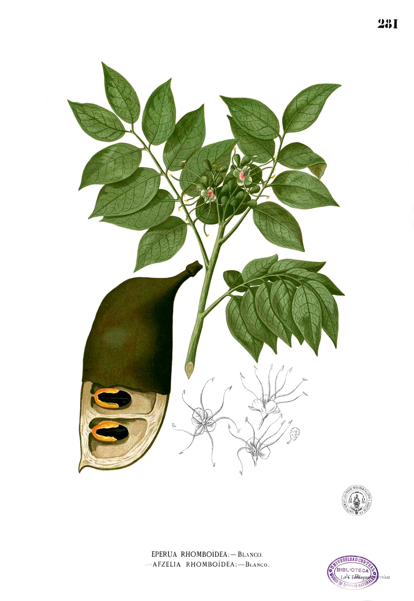 Plate from book